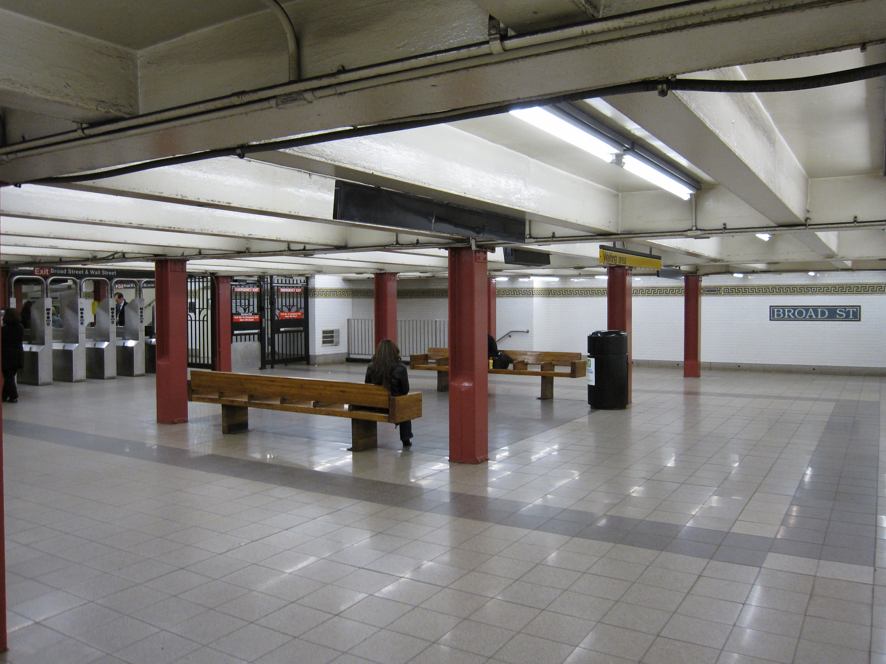 Broad Street (BMT Nassau Street Line)